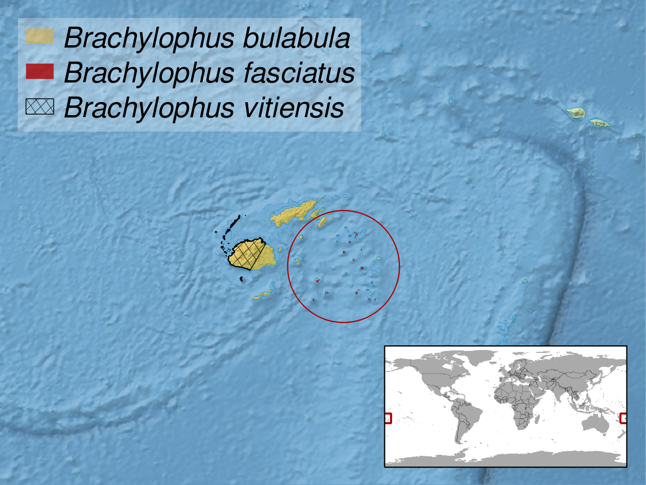 geographic distribution of Brachylophus sp. Included species for RDB: Brachylophus bulabula, Brachylophus fasciatus and Brachylophus vitiensis